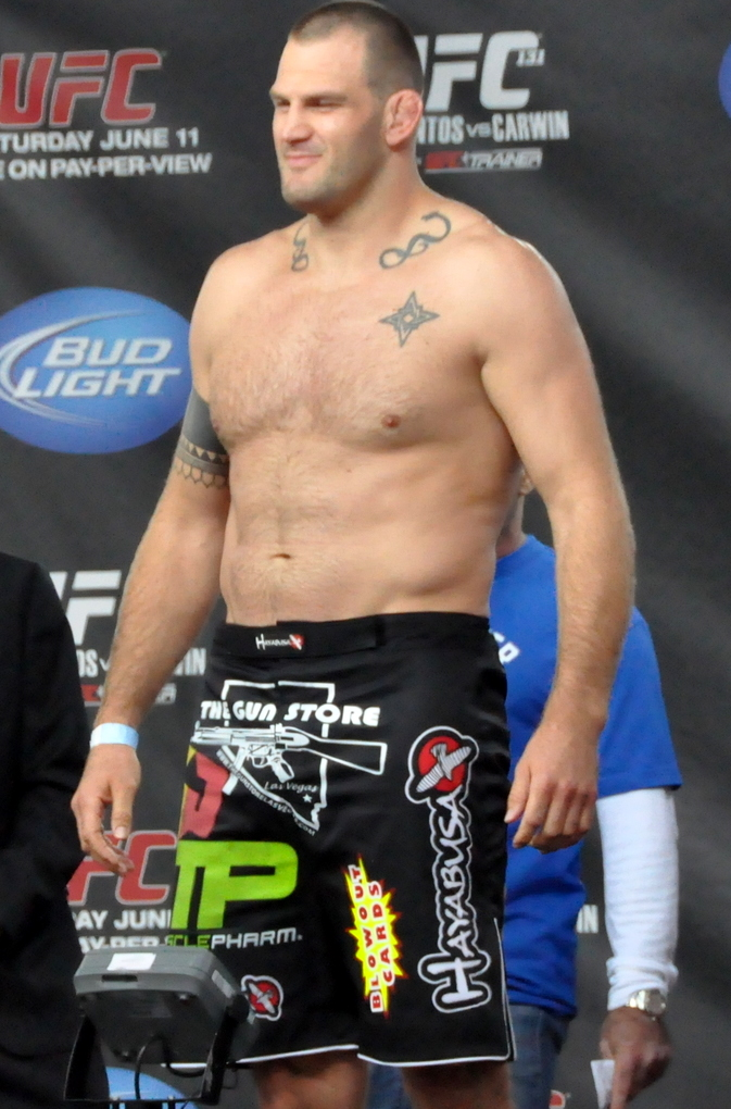 "The Viking" Jon Olav Einemo at the weigh in for UFC 131